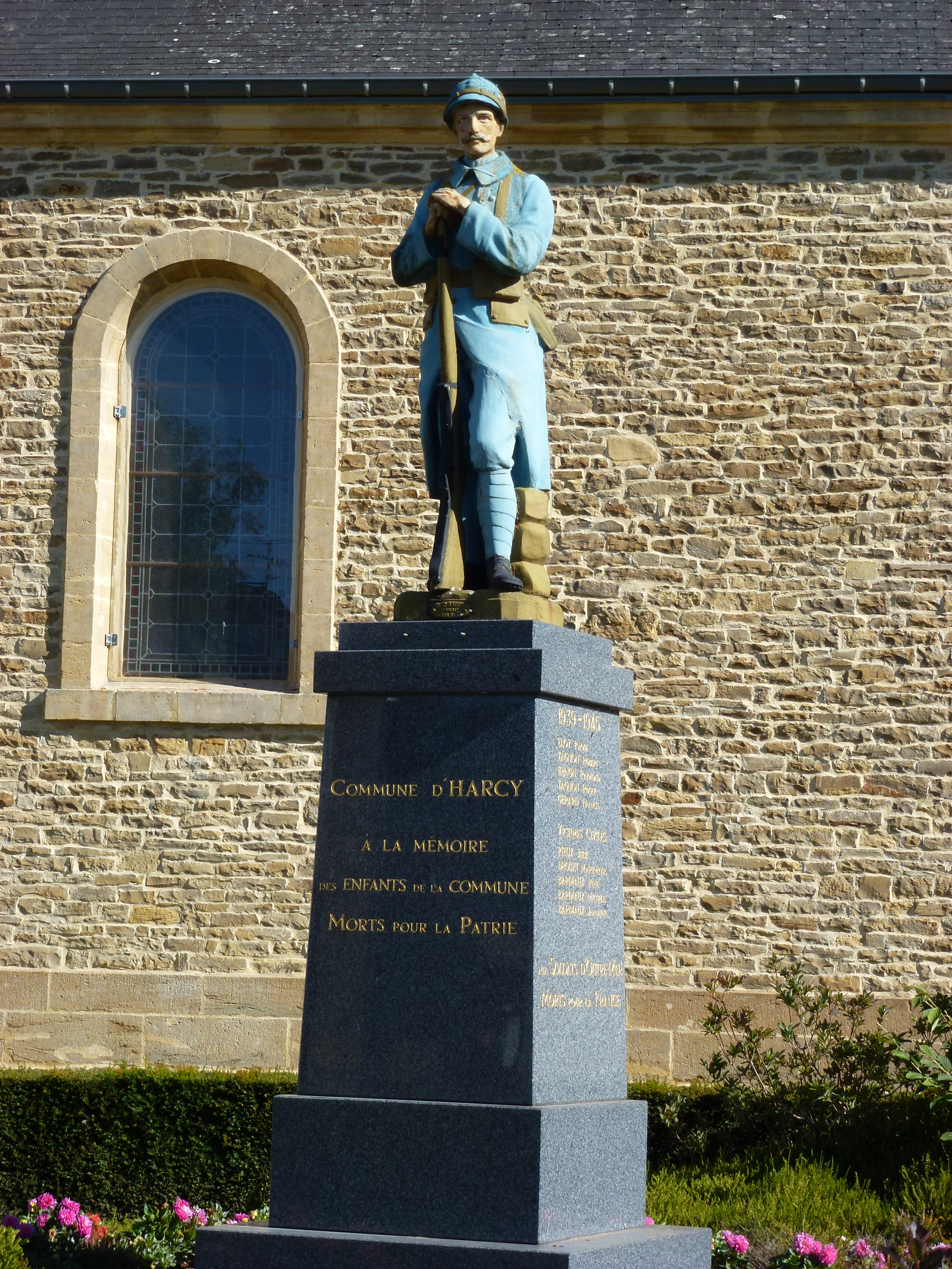 Harcy (Ardennes) monument aux morts